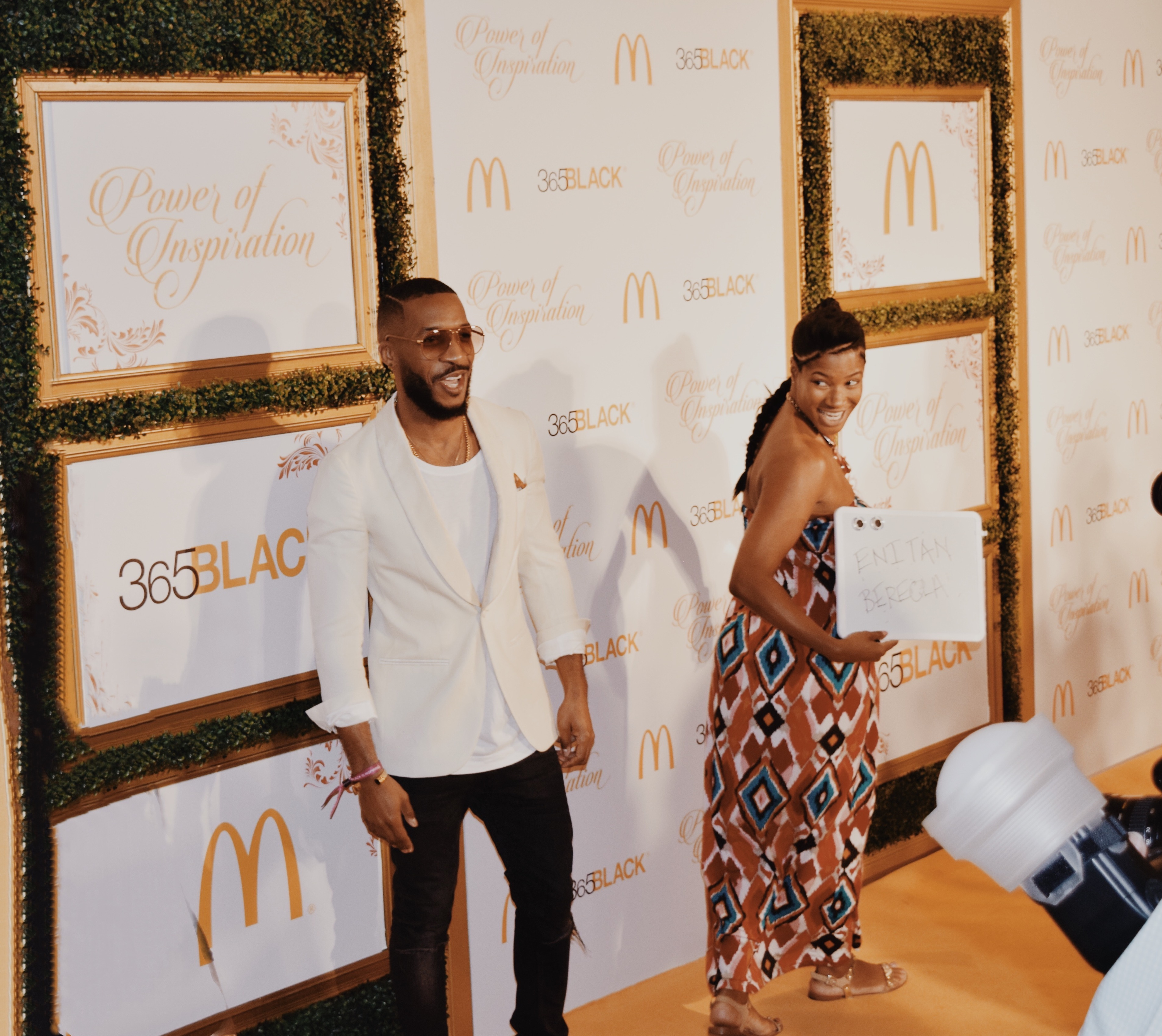 Enitan Bereola II at Mcdonalds 365 Awards 2017